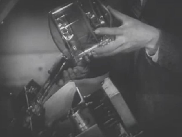 Screen capture from the film "Magic in the Air" posted at , at the 3:57 minute mark. Shows a technician removing the iconoscope and mosaic from an early television camera.